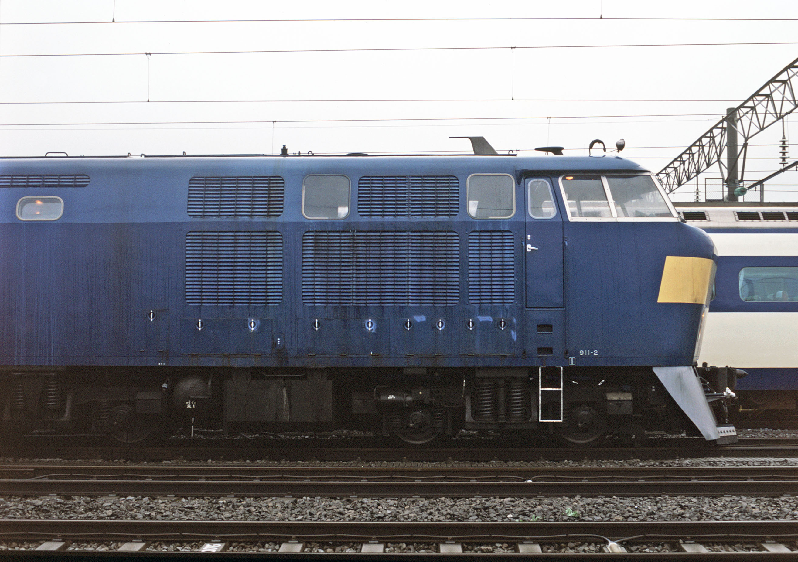 Japanese National Railways 911 type diesel locomotive(911-2) at Oi branch of Tokyo first railroad yard of Shinkansen.